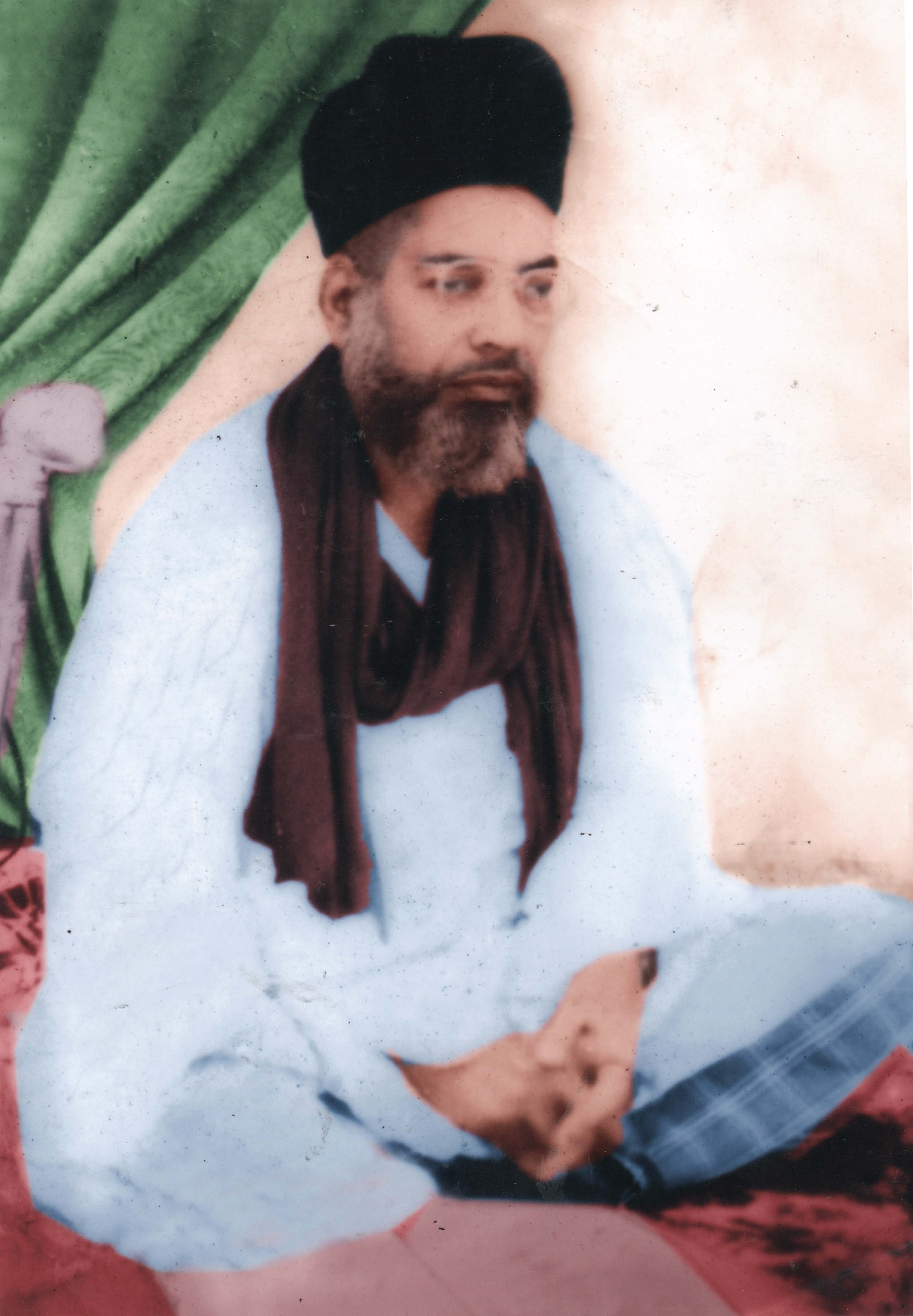 Photo of Hazrath Ghousi Shah